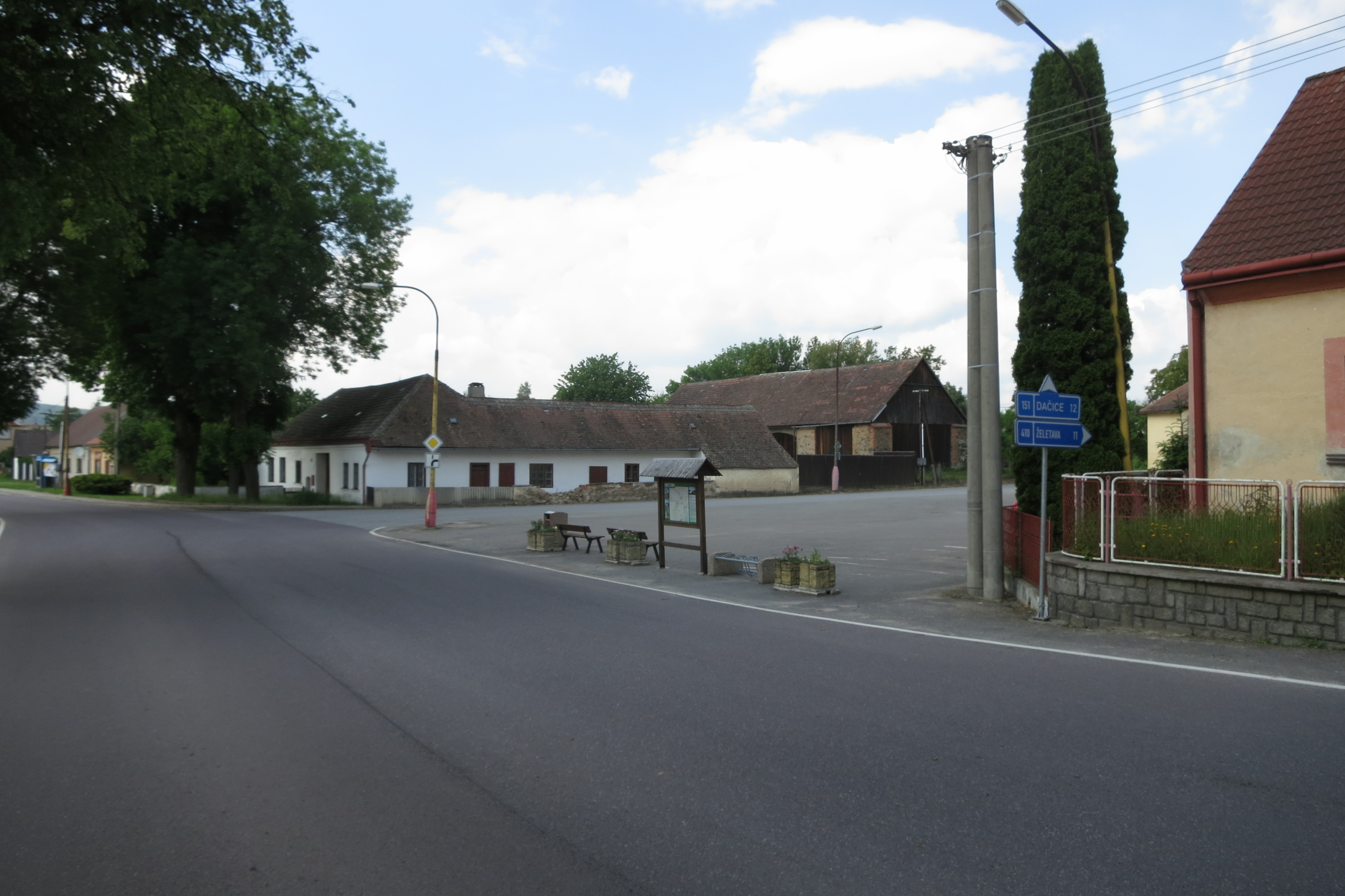 Village square in Budeč, Jindřichův Hradec District.